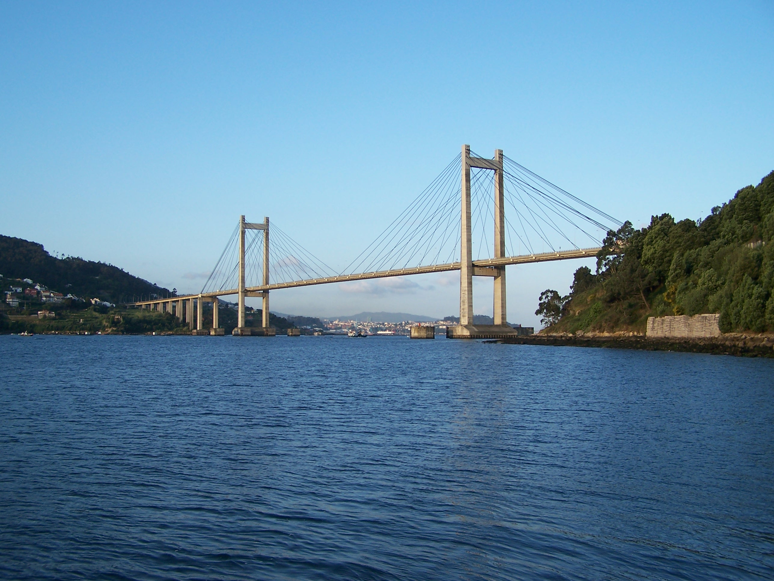 Rande bridge. Picture taken from the north side of the bridge, in a near beach.